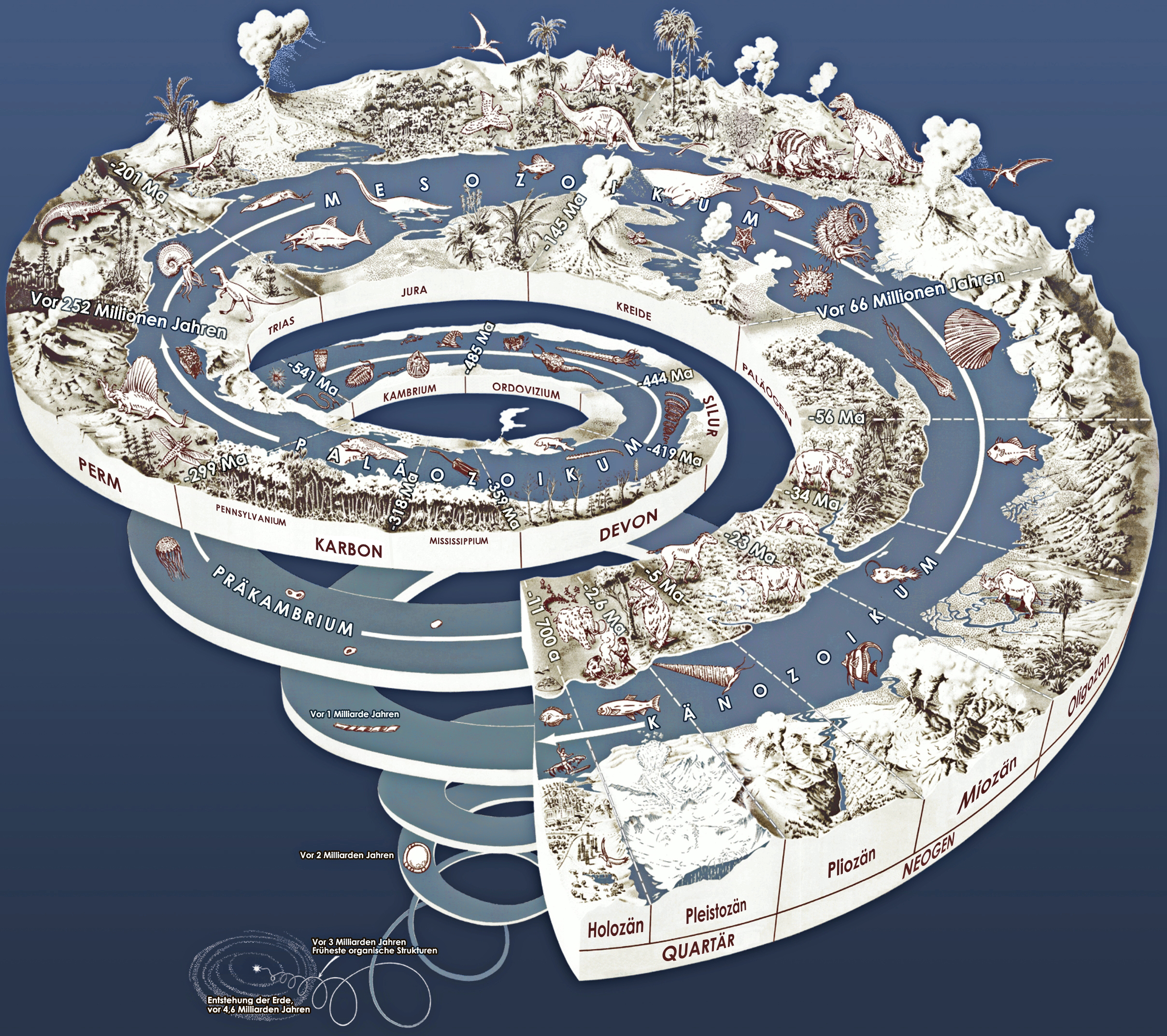 A diagram of the geological time scale